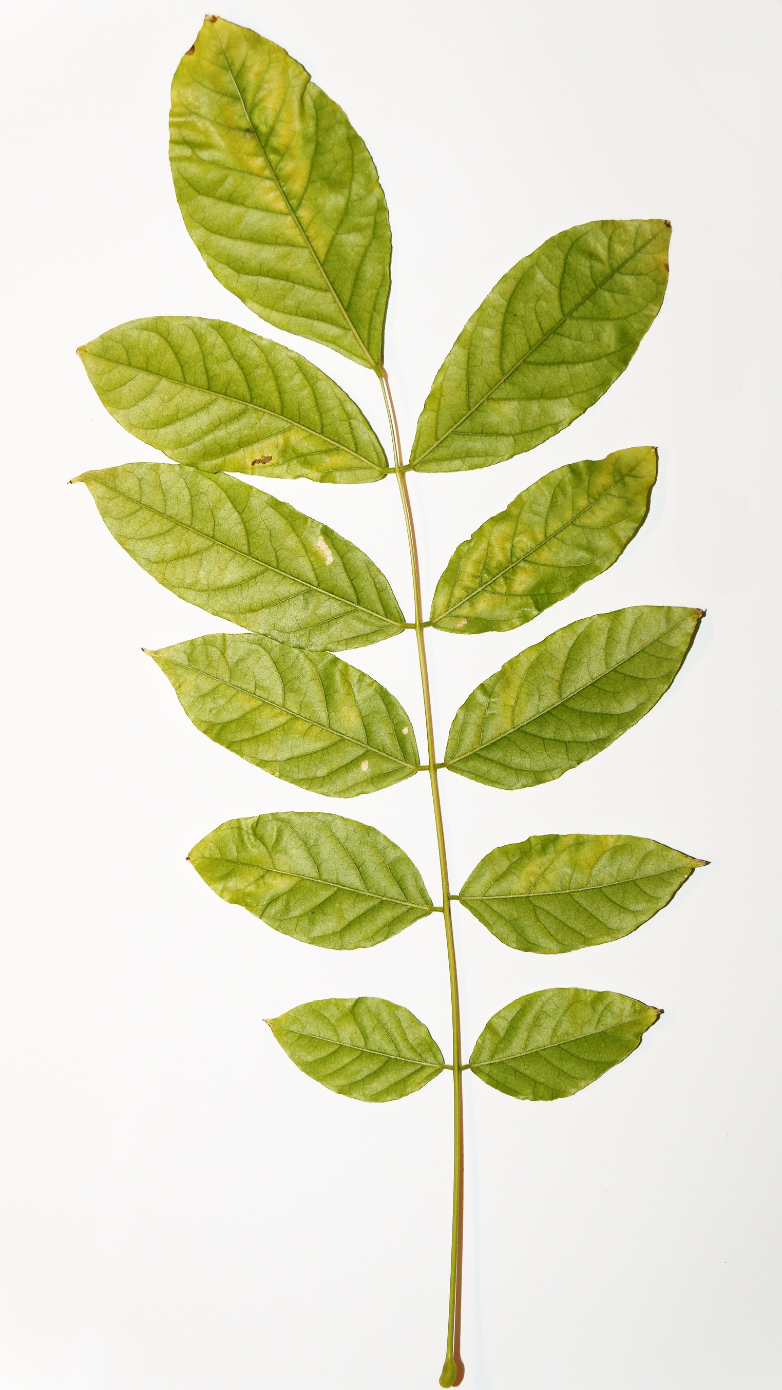 Wisteria Sinensis 'prolific' ('consequa') leaf with autumn colors (poor). Lower face